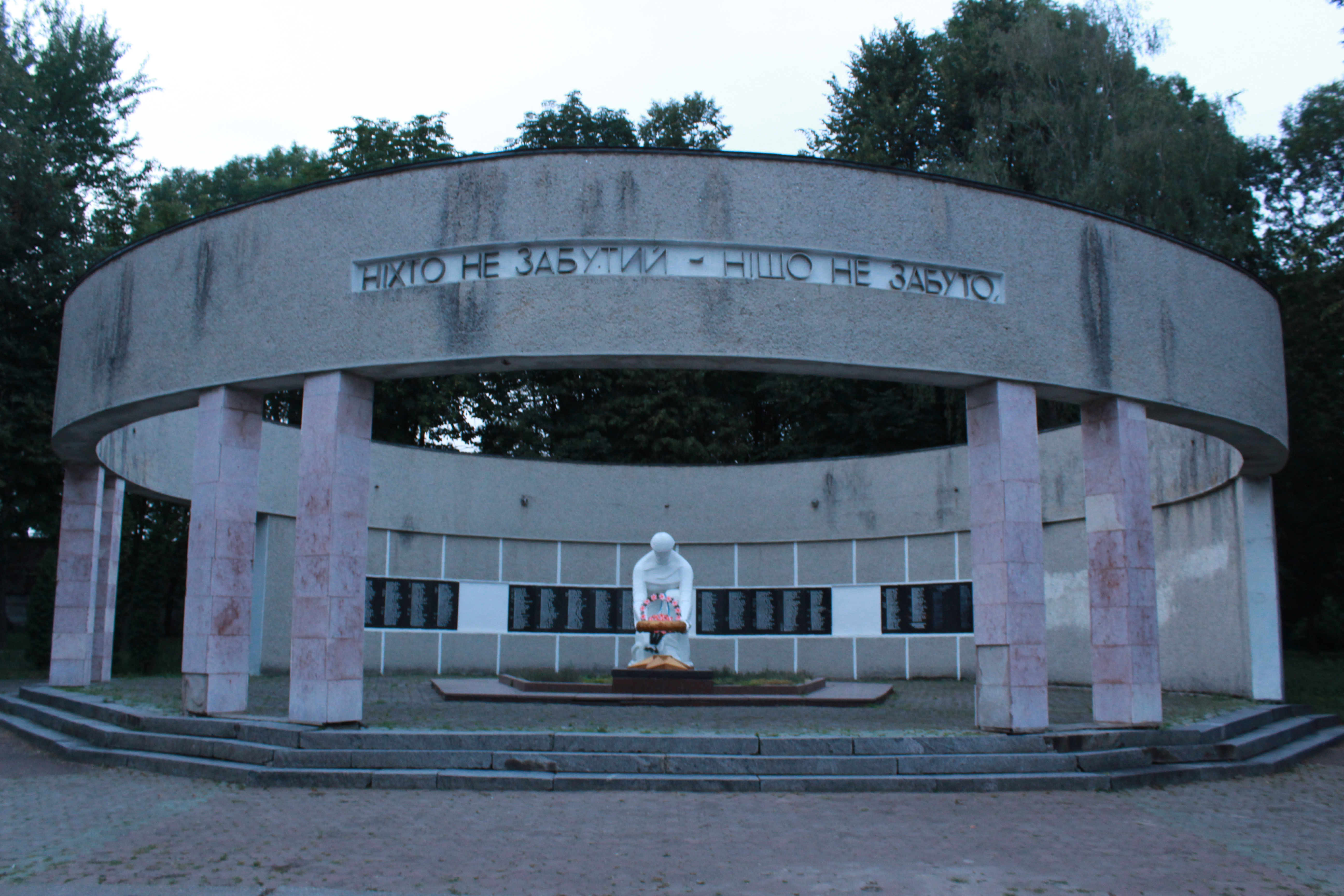 Меморіал слави